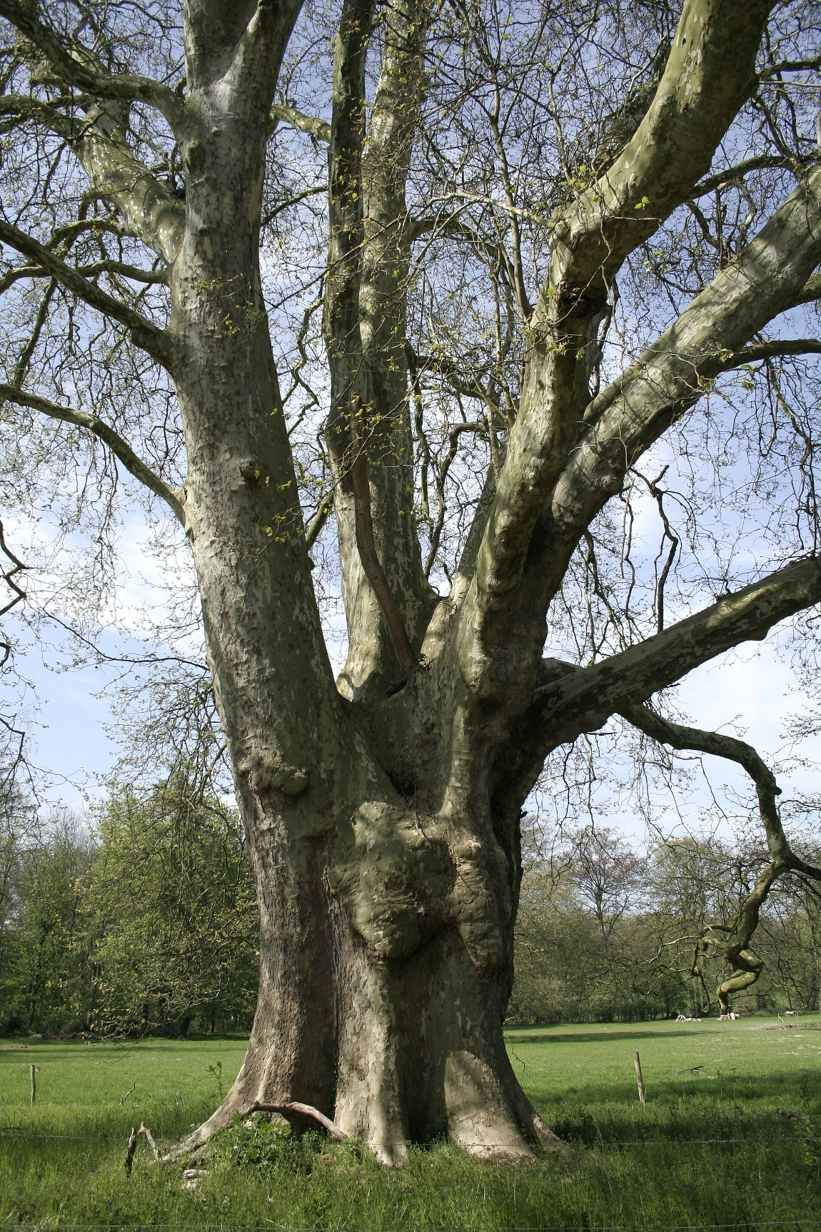 London Plane.